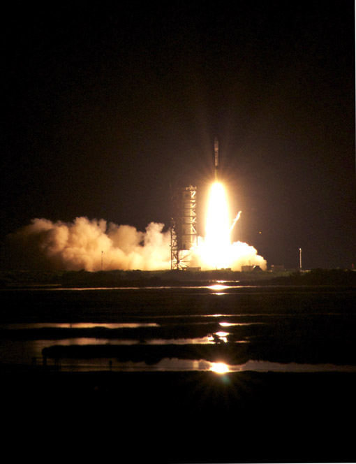 A U.S. Air Force Minotaur 1 rocket carrying the Department of Defense's ORS-1 satellite was successfully launched at 11:09 p.m. EDT on June 29, 2011, from NASA’s Launch Range at the Wallops Flight Facility and the Mid-Atlantic Regional Spaceport in Virginia. › More information from NASA Goddard's Wallops Flight Facility Credit: NASA/Ed Campion NASA Goddard Space Flight Center enables NASA’s mission through four scientific endeavors: Earth Science, Heliophysics, Solar System Exploration, and Astrophysics. Goddard plays a leading role in NASA’s accomplishments by contributing compelling scientific knowledge to advance the Agency’s mission. Follow us on Twitter Like us on Facebook Find us on Instagram